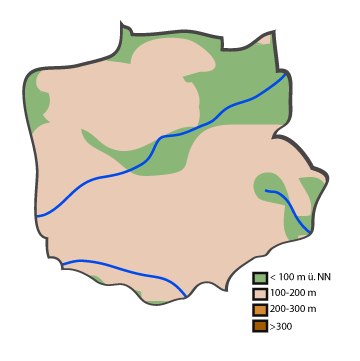 Topographical map of Enger, Kreis Herford (Germany).